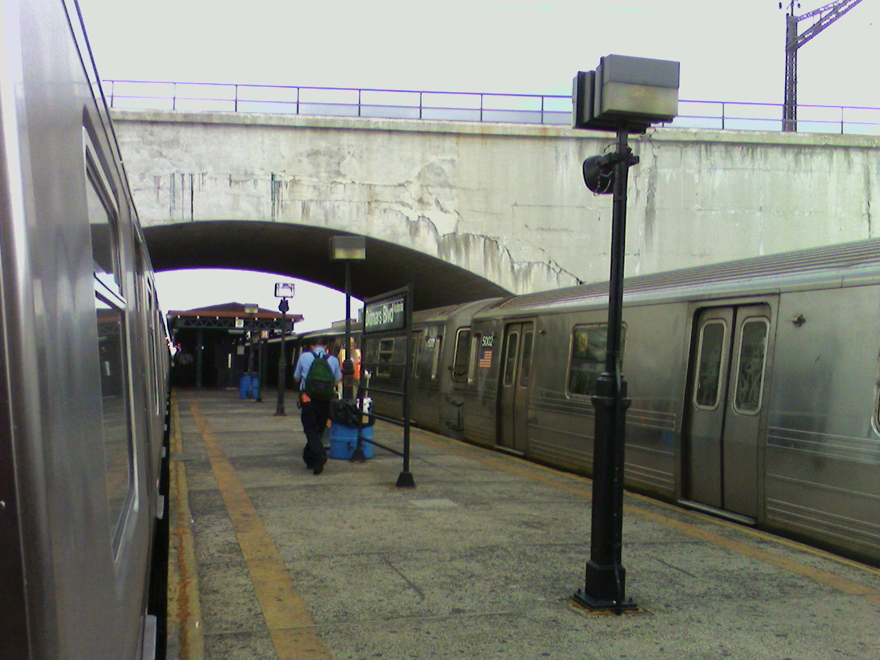 The Astoria-Ditmars Boulevard subway station in Queens. The overhead right of way is of the Northeast Corridor, which has no stations in Queens.